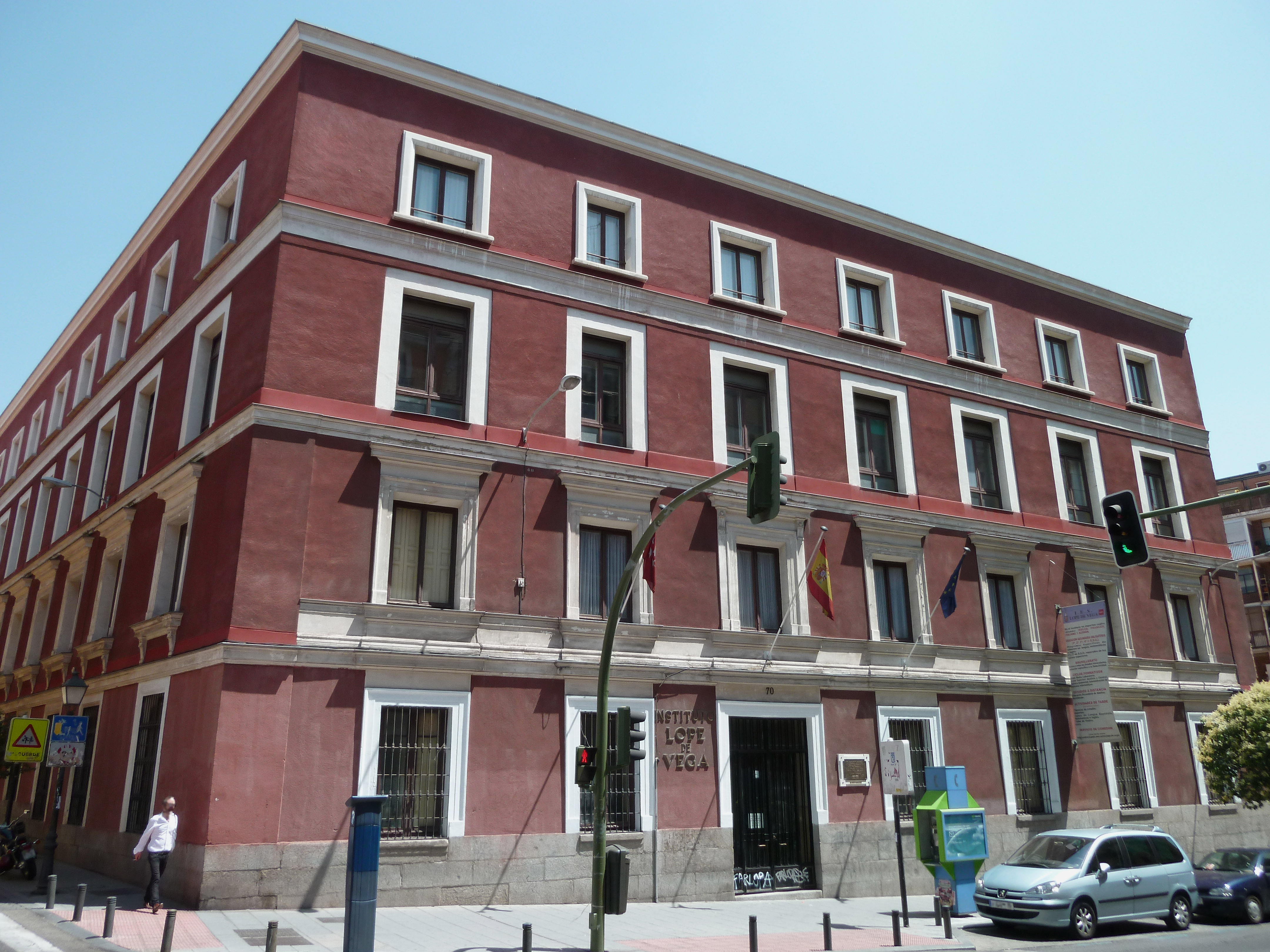 West façade of Instituto Lope de Vega (a high school) in Madrid (Spain), at 70 Calle de San Bernardo (street) in Centro district. Building was made in the 18th century as a manor for the Marquis of Castromonte.